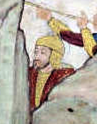 Humayun finally defeated his rebellious brother Kamran in Kabul in 1553, in a battle that paved the way for his return. This painting was commissioned by Akbar c.1597, and is from the collection of the Aga Khan Museum (*more information*); click on the image for a large scan. (downloaded Apr. 2011)